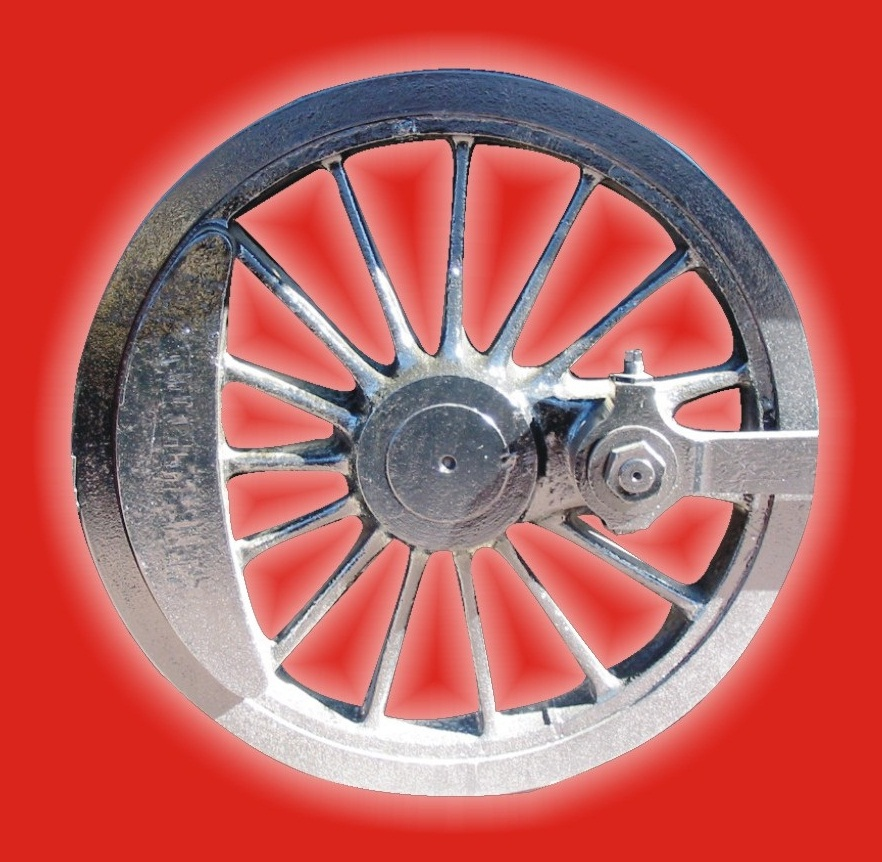 Mark of the Union